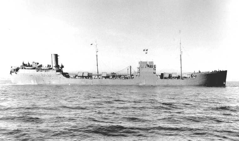 I believe this image was taken from Big Horn (WAO-124) underway, circa 1944, place unknown. US Navy photo US Coast Guard Historians Office Commons:Category:Ships Commons:Category:Black and white photographs Commons:Category:1944